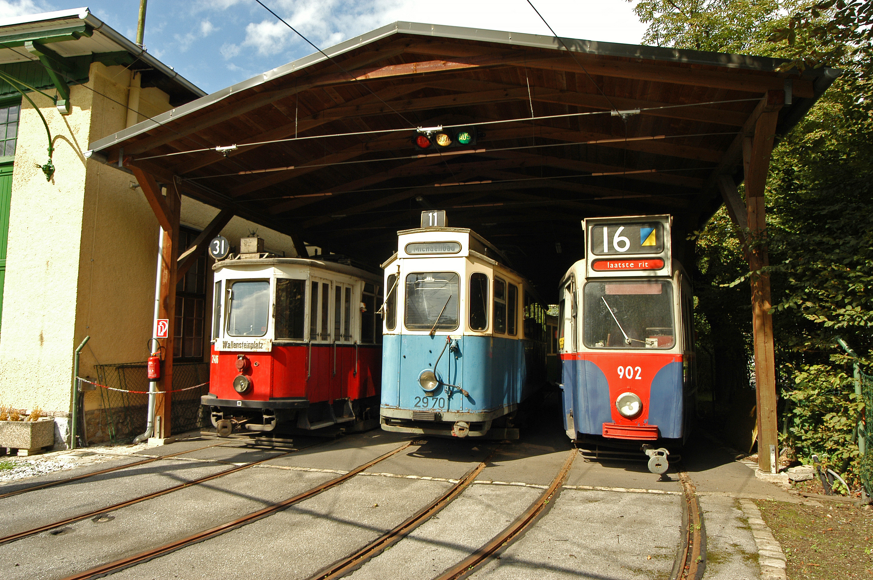 Please report references to kulacgmx.at.